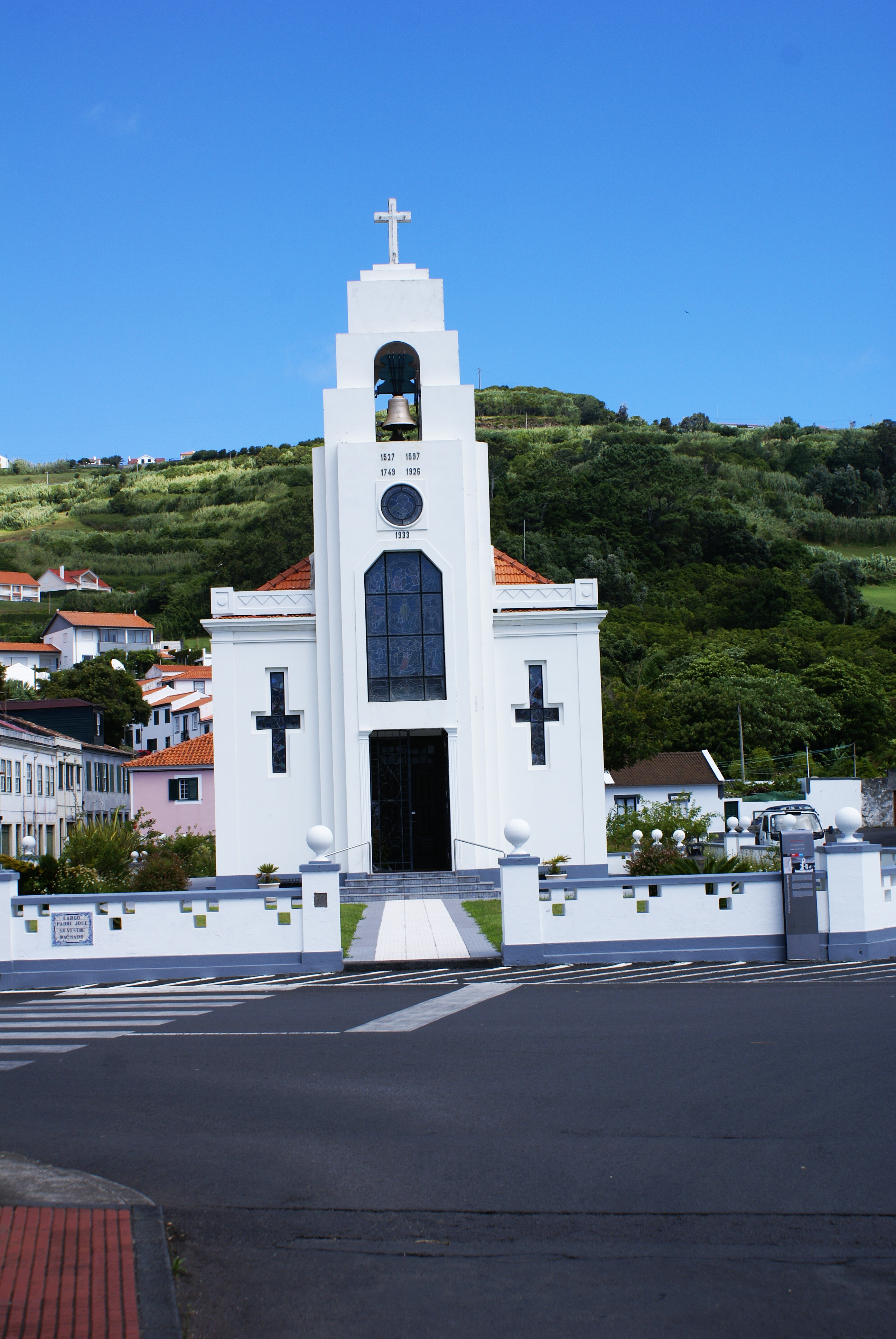 Igreja de Nossa Senhora da Conceição, fachada, concelho da Horta, ilha do Faial, Açores, Portugal